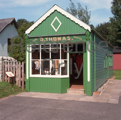 Exterior of D. Thomas Tailor Shop at St Fagans: National History Museum.